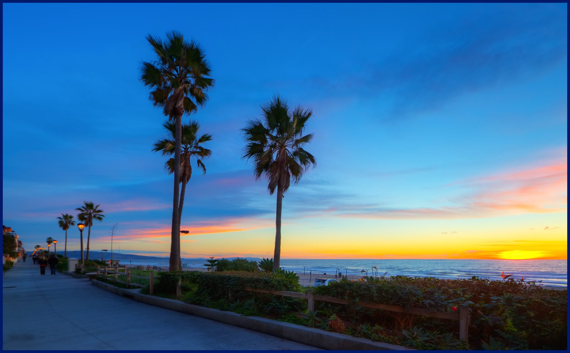 A December sunset in El Porto, California. The strand starts in El Porto and goes down for miles until Torrance. Very pleasant in the evening. ISO 100, 10mm, f5.6, (1/60, 1/15, 1/4) on tripod. HDR processed in Photomatix and tonemapped using Details Enhancer. Lots of futzing around with the sliders to preserve the smooth sky and not get halos around the palm trees. Slight imagenomic Noiseware noise reduction. Curves for contrast, some Nik Viveza brightening and saturation of the green foreground. Slight vibrance increase and dodge an burn.